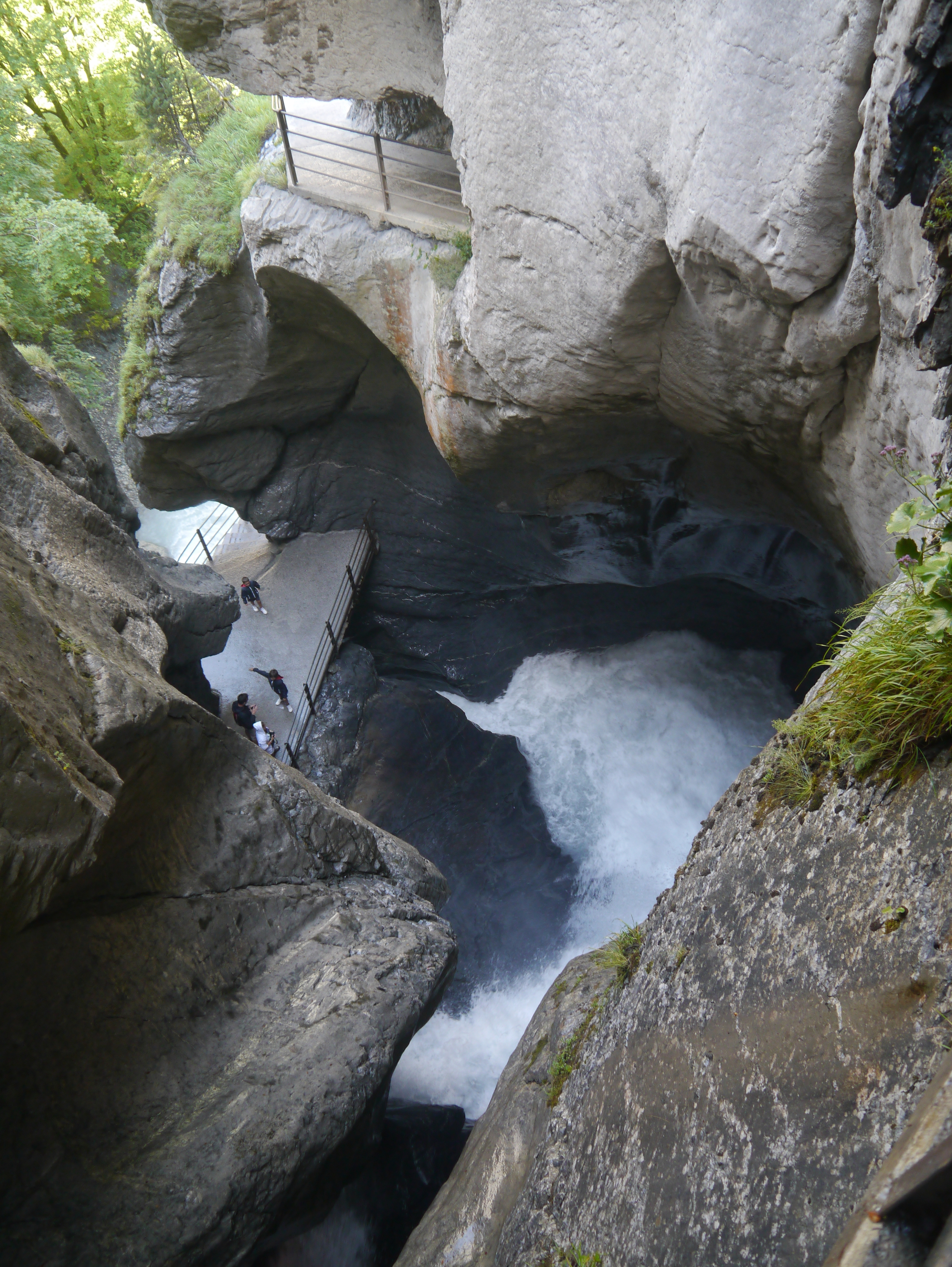 Trümmelbach Falls near Lauterbrunnen, Canton of Bern, Switzerland